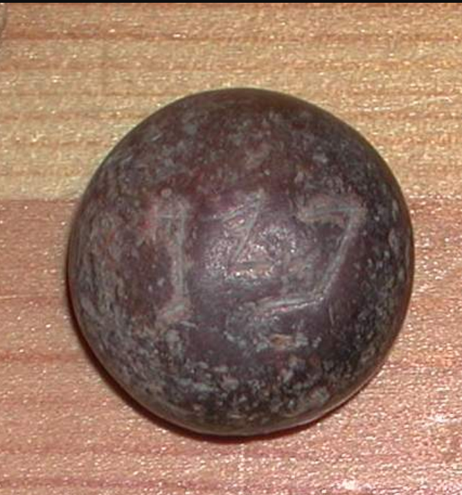 Unprovenanced stone pim weight (top-view photo) in private collection.